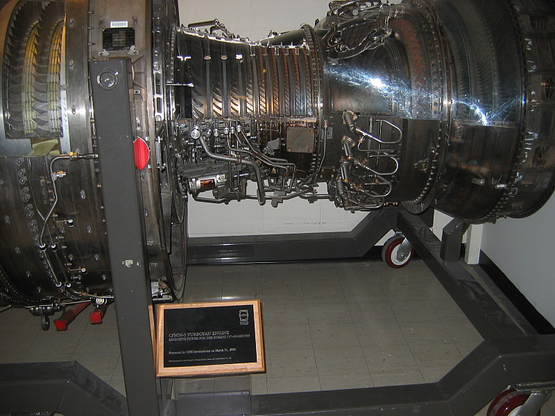 A mounted CFM56 turbofan on display in MIT's Building 33 hangar.